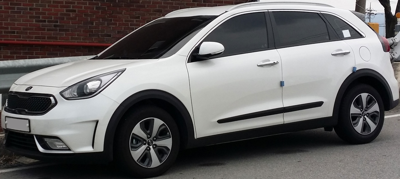 Kia Niro